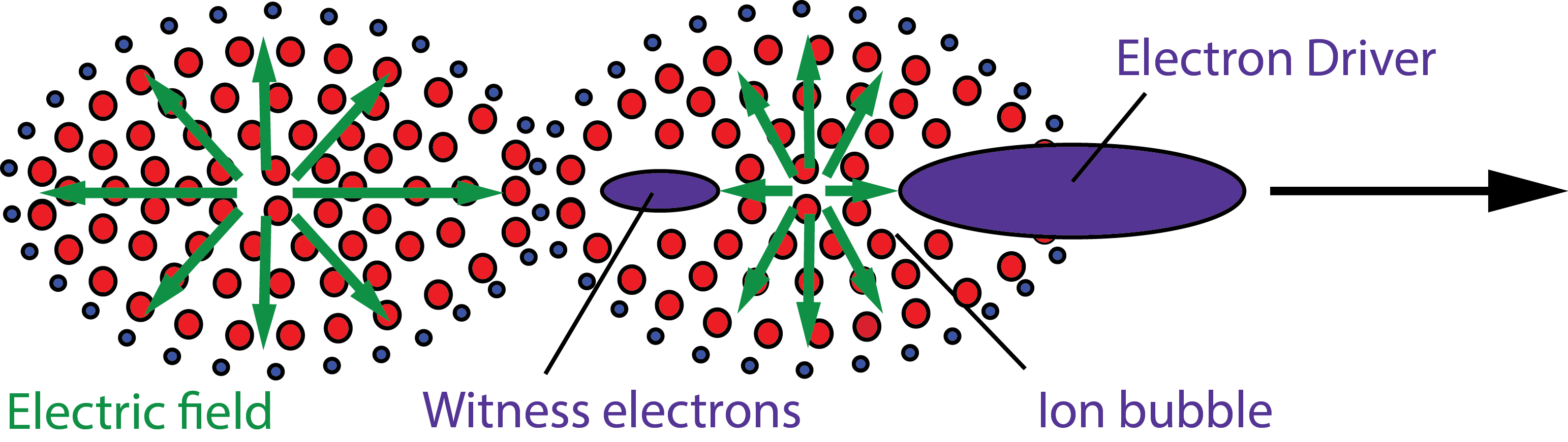 Schematic representation of the beam-driven Plasma Acceleration scheme called Plasma Wake Field Acceleration (PWFA). The blue dots represent the electrons in the plasma, while the red dots represent the plasma ions. The purple ellipses represent an electron driver bunch and an electron witness bunch injected in the plasma. The green arrows represent the Electric field.